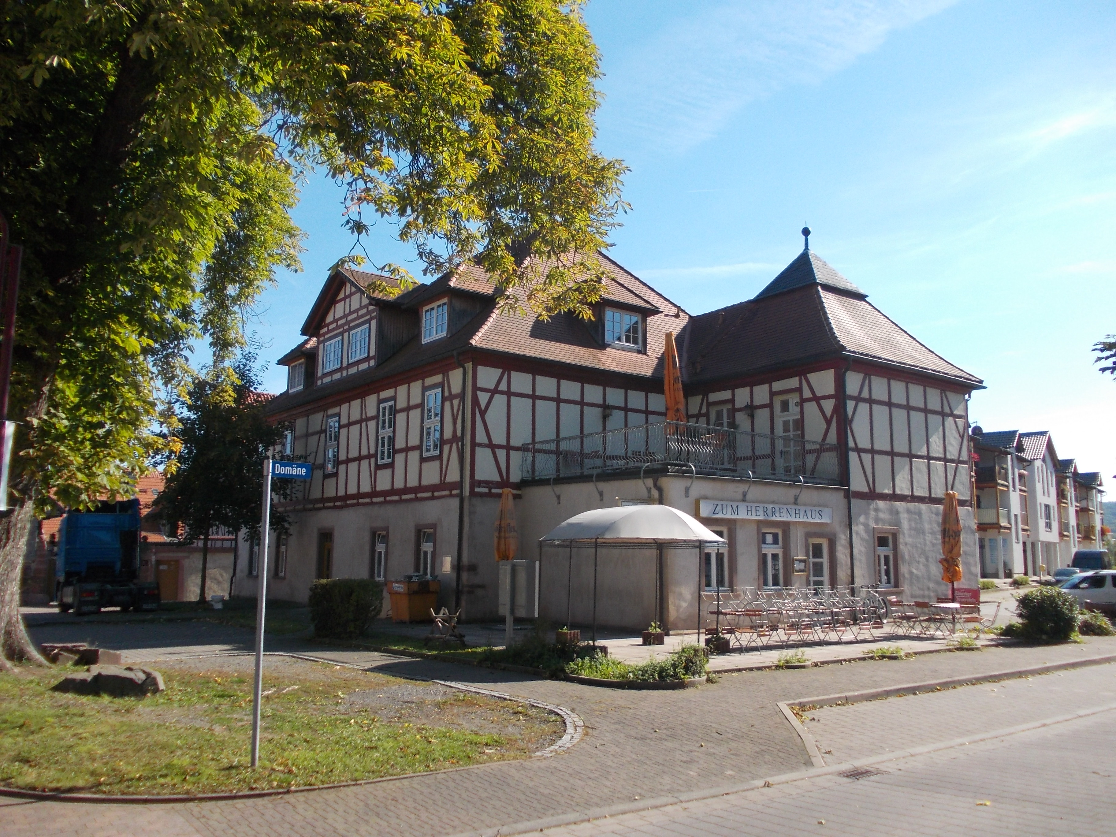 Rottleberode domain (Südharz, Mansfeld-Südharz district, Saxony-Anhalt)